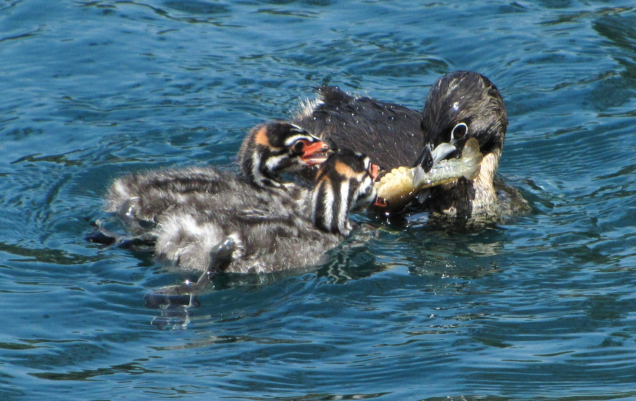 Pied-billed grebe (Podilymbus podiceps) feeding a crayfish (Procambarus clarkii) to its chicks. Location: Laguna Lake, Fullerton, CA, USA Identification: The crayfish species identification was based only on the fact that it seems to be the only crayfish species occurring in the area where the photograph was taken. Comment: Note that the legs are missing off the crayfish. It was common for the chicks not to be able to swallow the crayfish when it was first offered to them. The mother would recapture the crayfish when it escaped from the chicks and while the mother was holding the crayfish a the chicks would pick at the crayfish legs until they were all removed. After this and after perhaps a few more tries a chick would succeed in swallowing the crayfish (always tail first while we were observing the birds). We observed the mother feeding small fish to the chicks as well.